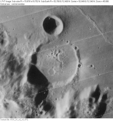 Greaves is at the top with the large ghostly ring of Lick below it. Ruined 23-km Lick A is partially visible just below Lick. The wrinkle-ridge in the upper right is not part of any named system.